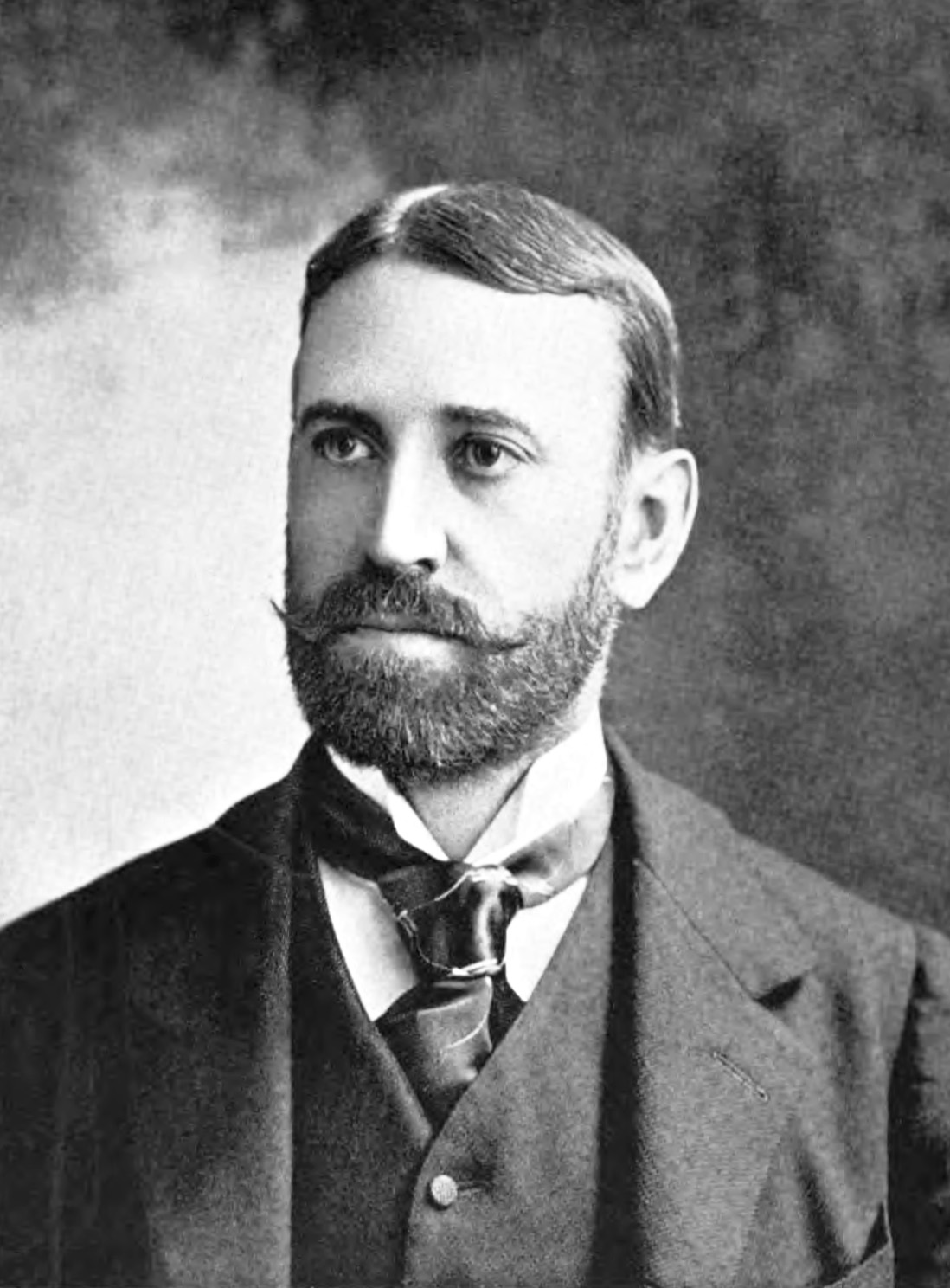 Robert Sanderson McCormick (1849–1919) was a United States diplomat. Born in rural Virginia, his family became influential in Chicago. He served as secretary to Robert Todd Lincoln in London, then Ambassador to Austria-Hungary, Russia, and France. His son published the Chicago Tribune newspaper.